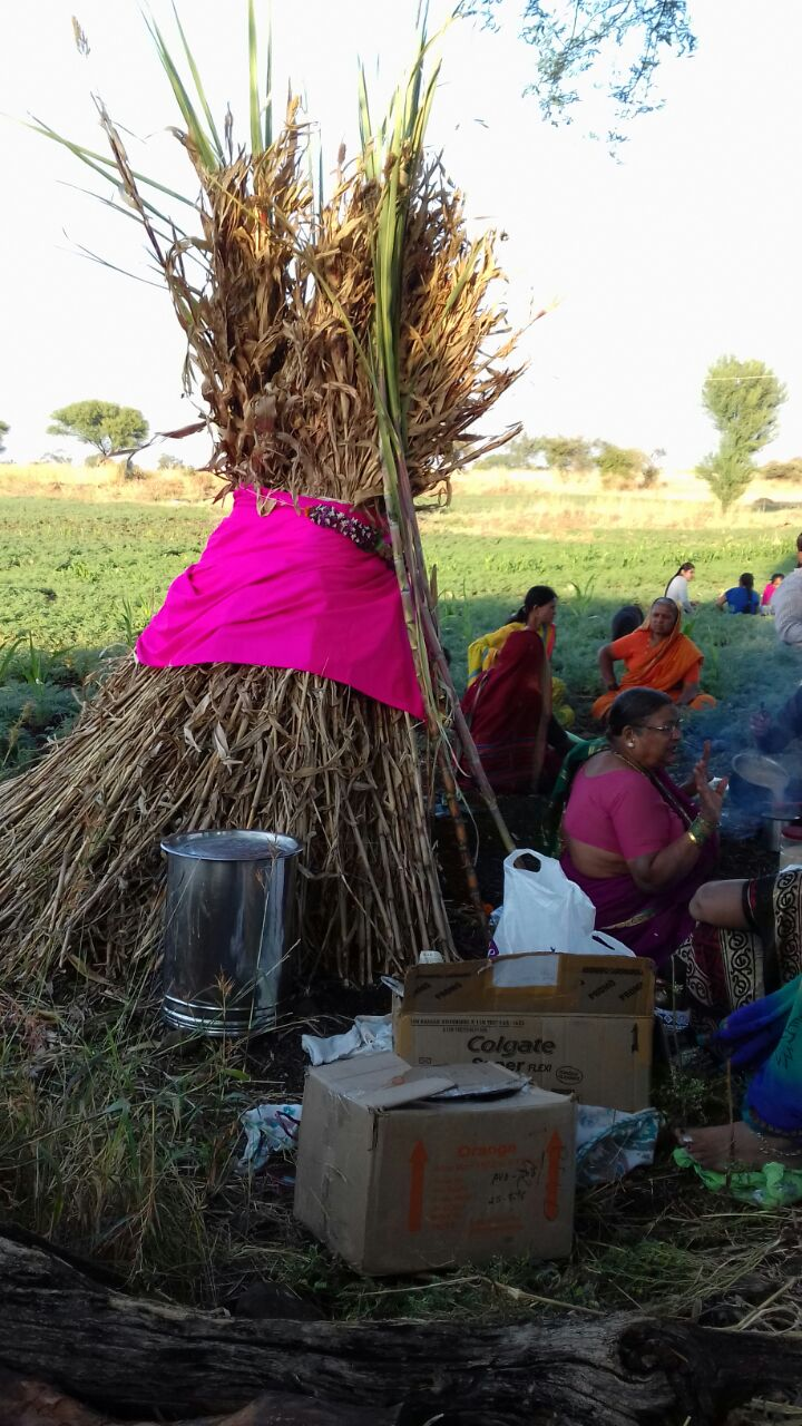 Celebration of agricultural festival